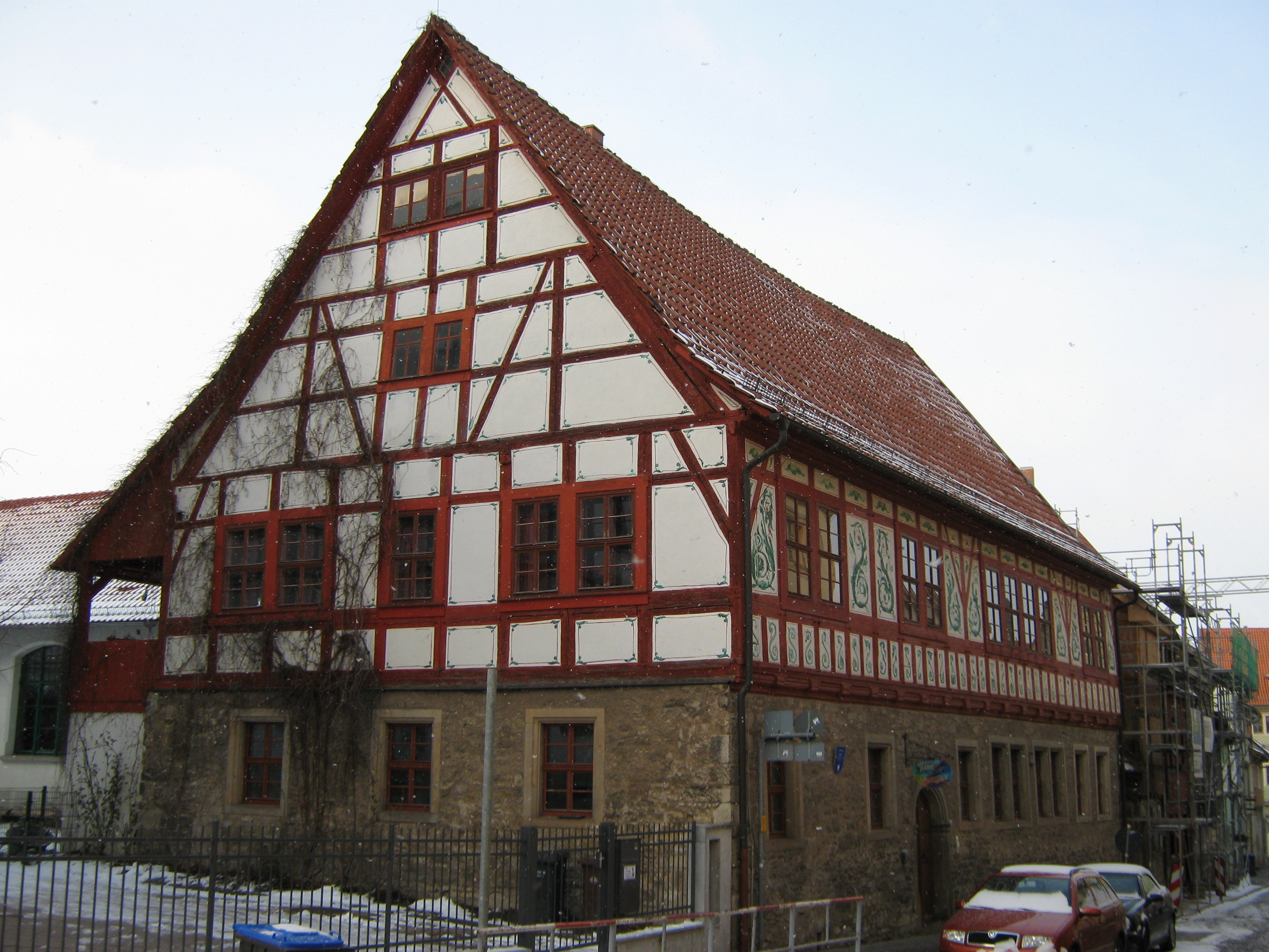 Altes Rektorat Arnstadt, Kohlgasse